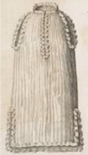 Detail of the first plate of the regalia of the British Crown showing the colobium sindonis. Photograph of an engraving made by Francis Sandford (1630-1694), of the coronation of James II, 23 April 1685. Original 53 x 43